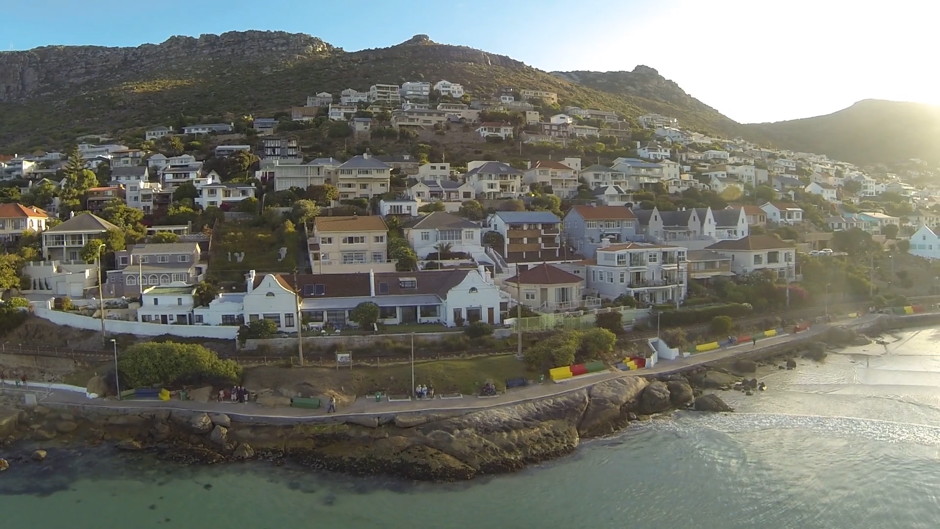 Aerial photo of Fish Hoek, Taken by Tamarac @ Indaskys Multimedia